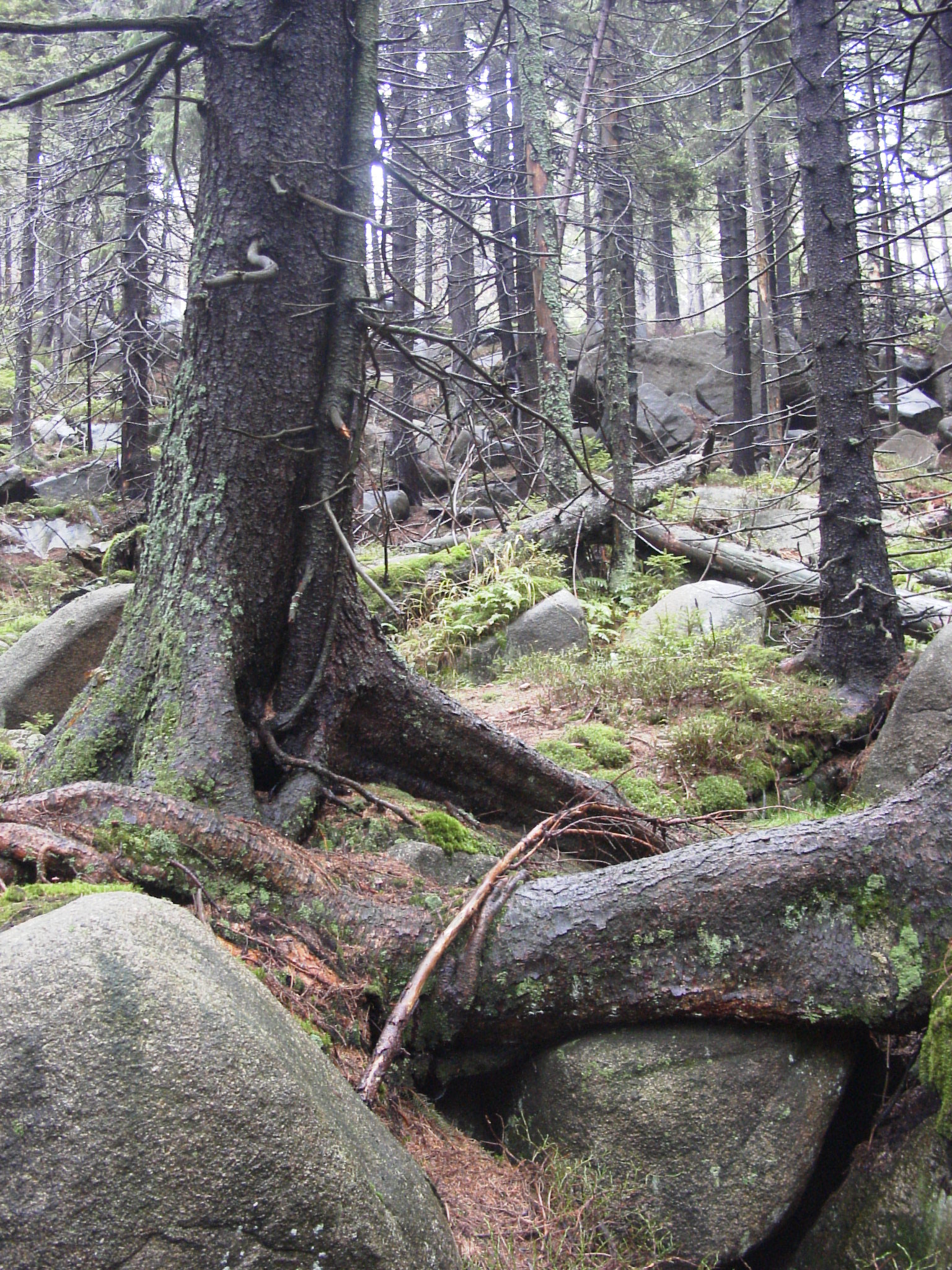 Ancient forest in the Harz National Park, Germany